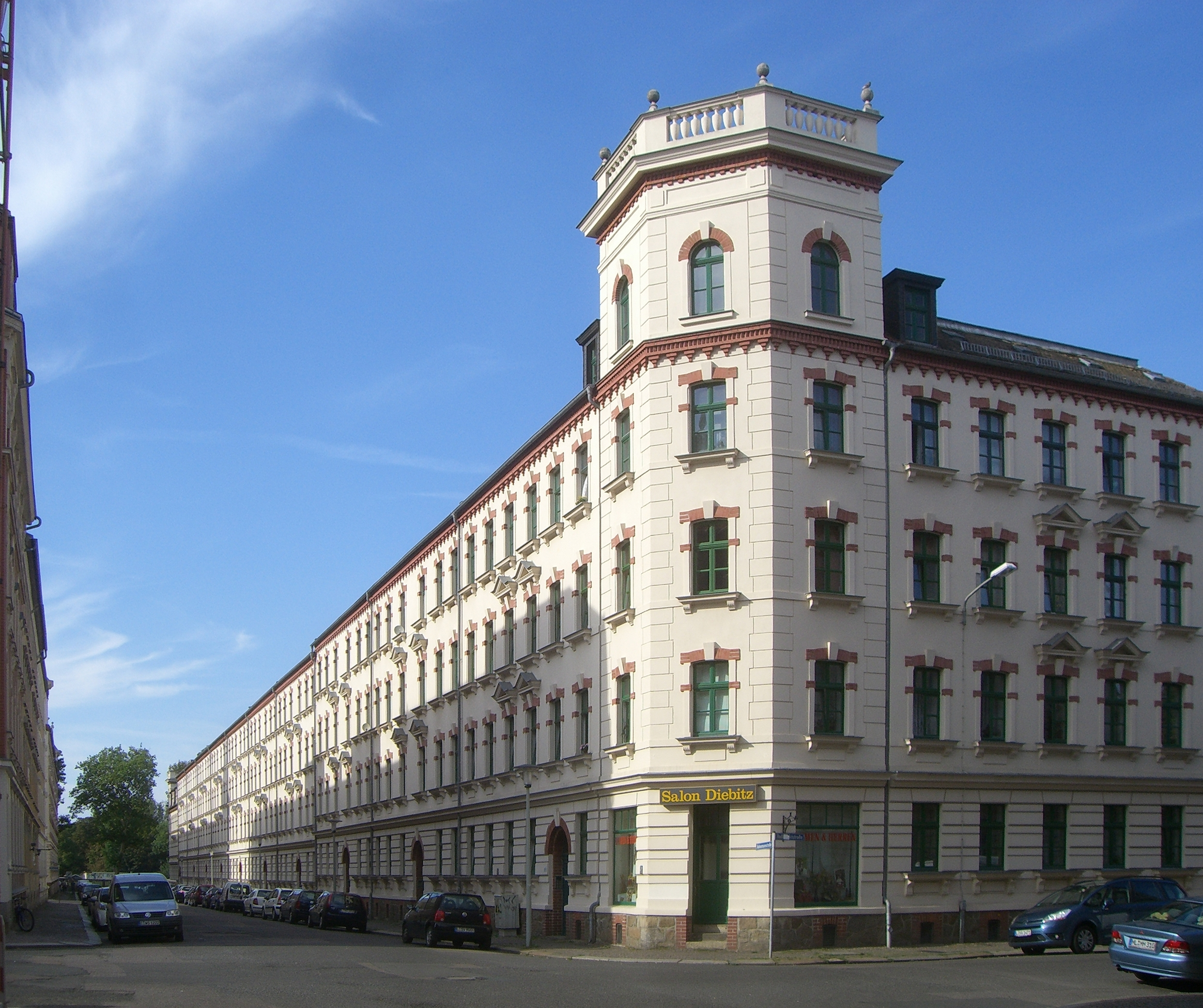 Apartment buildings "Meyer'sche Häuser" Altlindenau, Leipzig, corner Hahnemannstraße and Rossmarktstraße, architect: Max Pommer